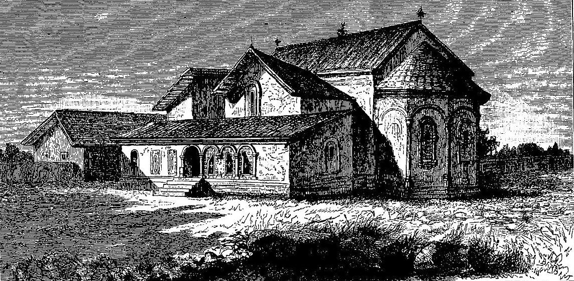 Khobi monastery. Engraved by Charles Barbant